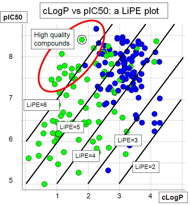 Thomas Ryckmans. A plot of cLogP vs pIC50 showing isoLipE lines